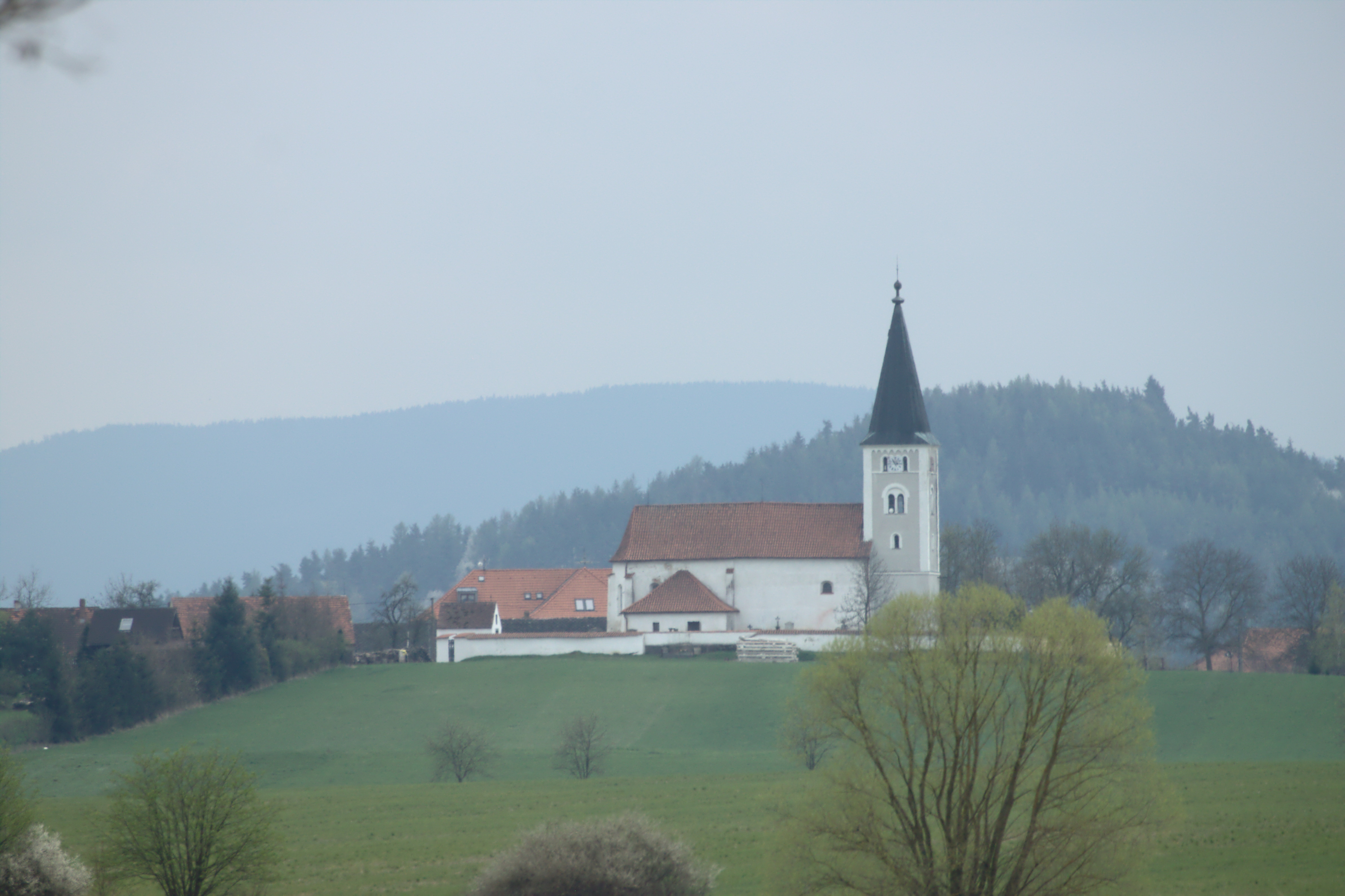 View of the Hradešice Church from Smrkovec, Plzeň Region, CZ